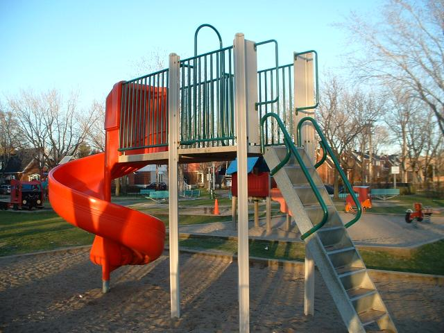 A spiral slide. Snapshot by User:aarchiba.